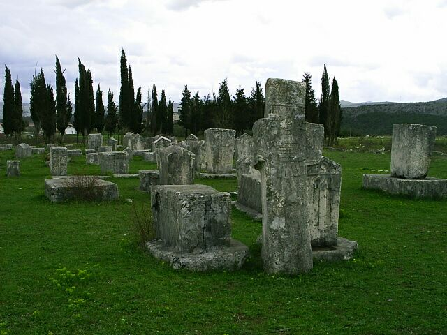 Radimlja necropolis near Stolac, BiH